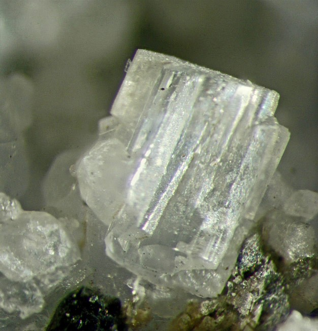 Dawsonite Locality: Poudrette quarry (Demix quarry; Uni-Mix quarry; Desourdy quarry; Carrière Mont Saint-Hilaire), Mont Saint-Hilaire, Rouville RCM, Montérégie, Québec, Canada Original description: FOV 2.2 x 2.3 mm. MOB coll. In addition to this blocky habit, Mont Saint-Hilaire dawsonite also comes in water clear elongated crystals (File:Dawsonite-169641.jpg), fibrous (File:Dawsonite-169628.jpg) and as a powdery cavity filling (File:Dawsonite-267906.jpg)